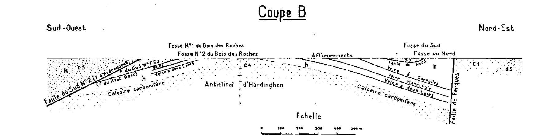 More informations in the French article Mines du Boulonnais.